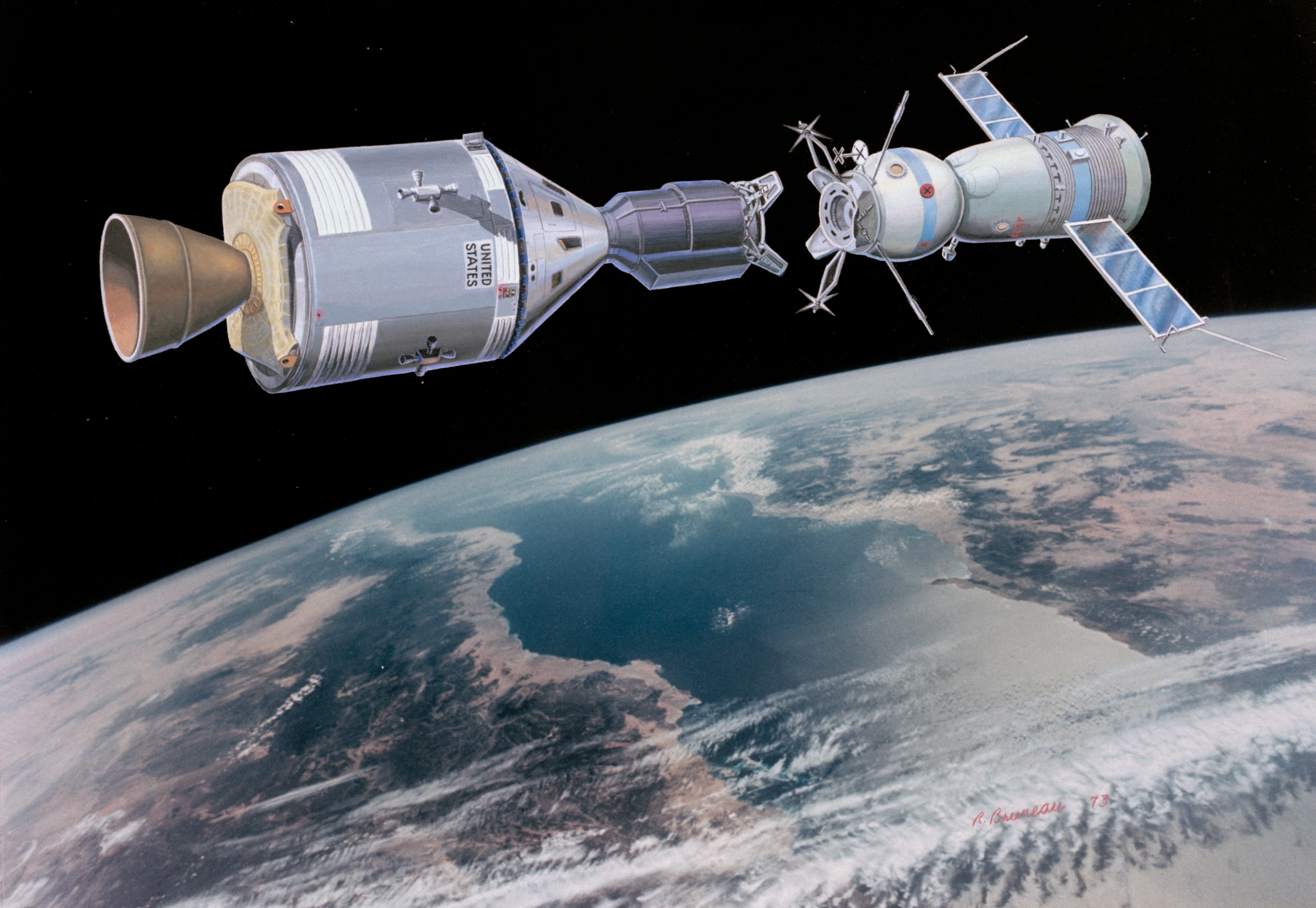 S73-02395 (August 1973) --- An artist's concept illustrating an Apollo-type spacecraft (on left) about to dock with a Soviet Soyuz-type spacecraft. A recent agreement between the United States and the Union of Soviet Socialist Republics provides for the docking in space of the Soyuz and Apollo-type spacecraft in Earth orbit in 1975. The joint venture is called the Apollo-Soyuz Test Project.